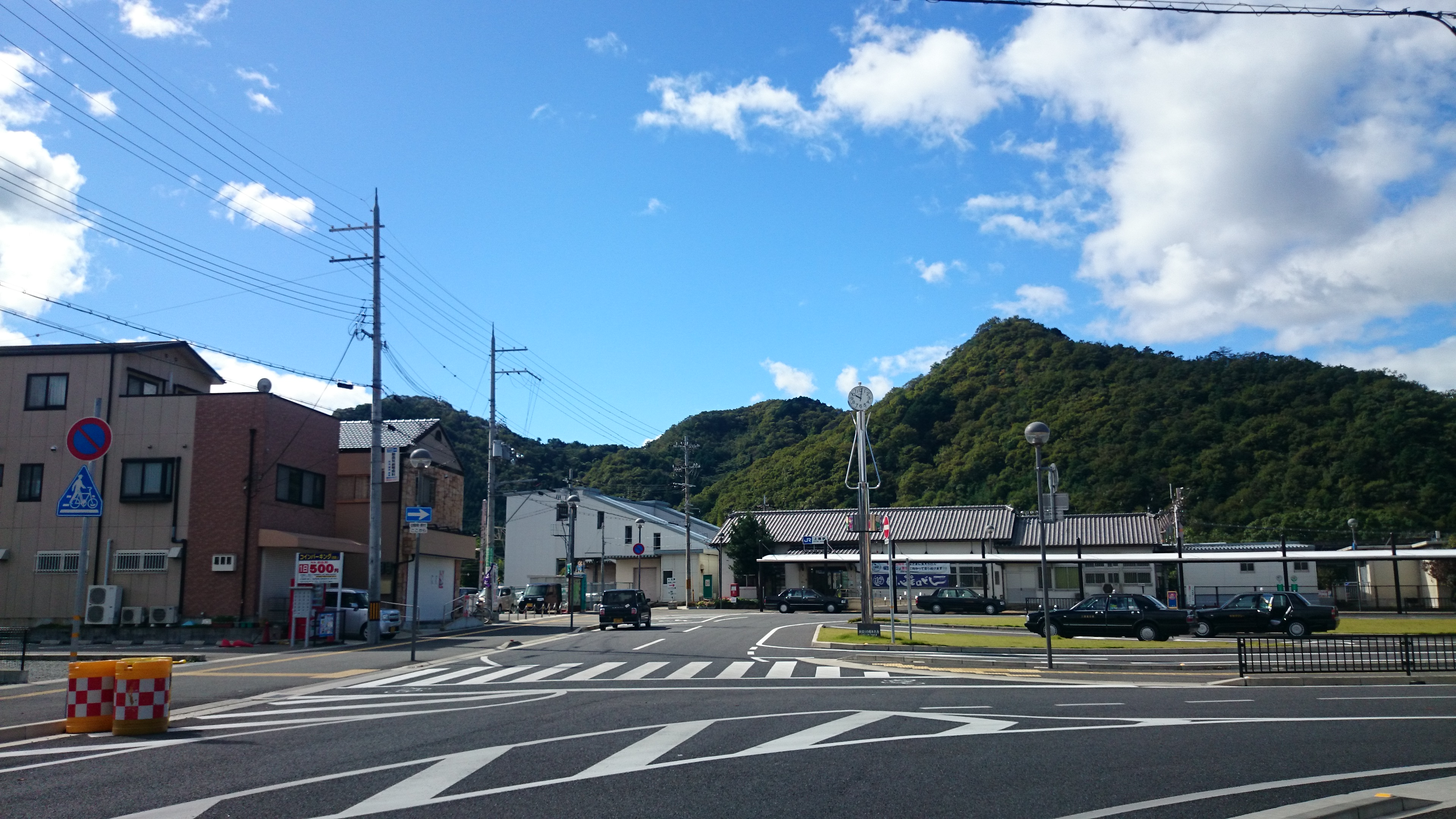 West Japan Railway kamigoori Station